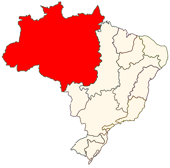 Hydrographics regions in Brazil - Amazônica